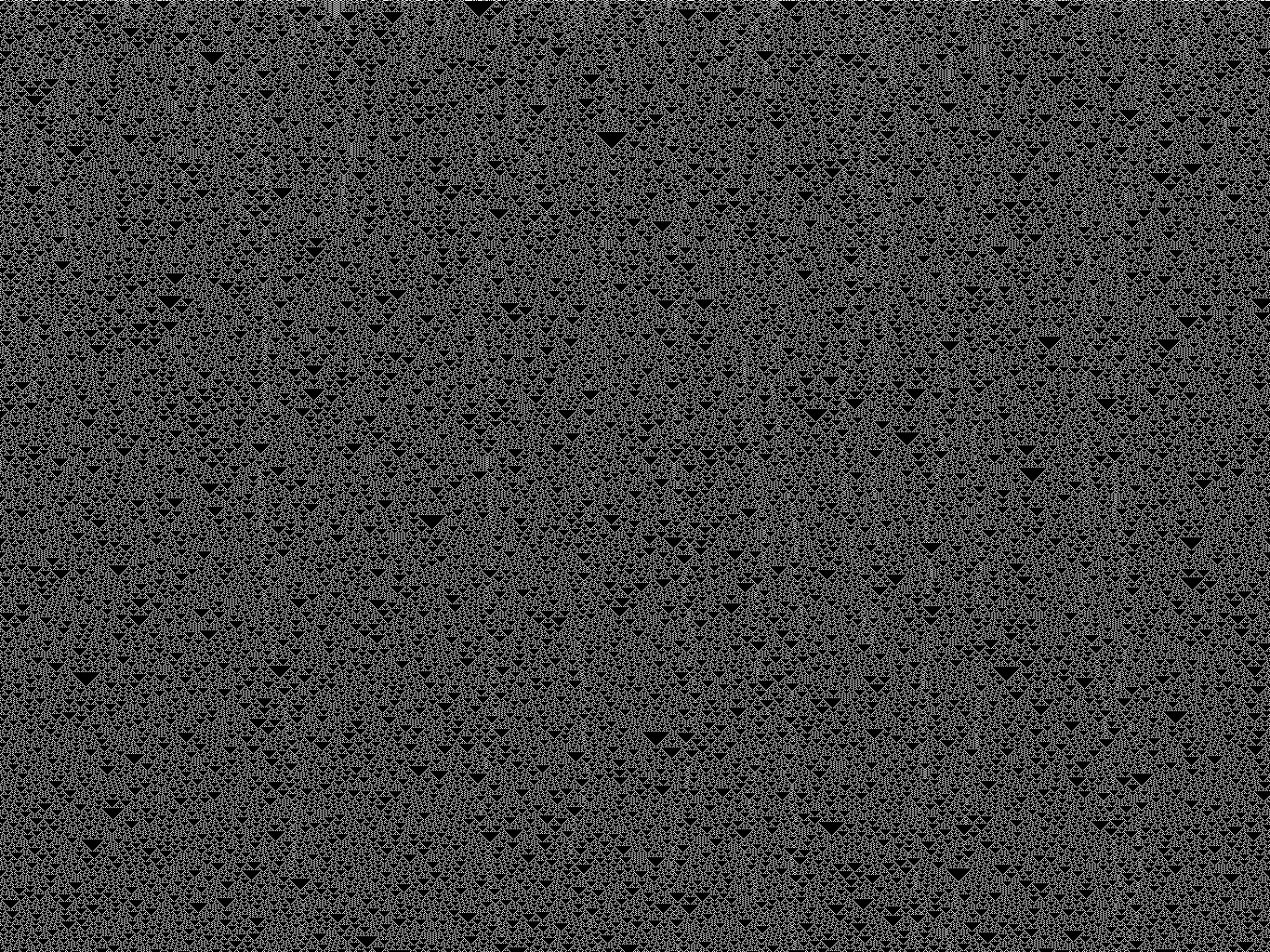 Rule 18 with random conditions